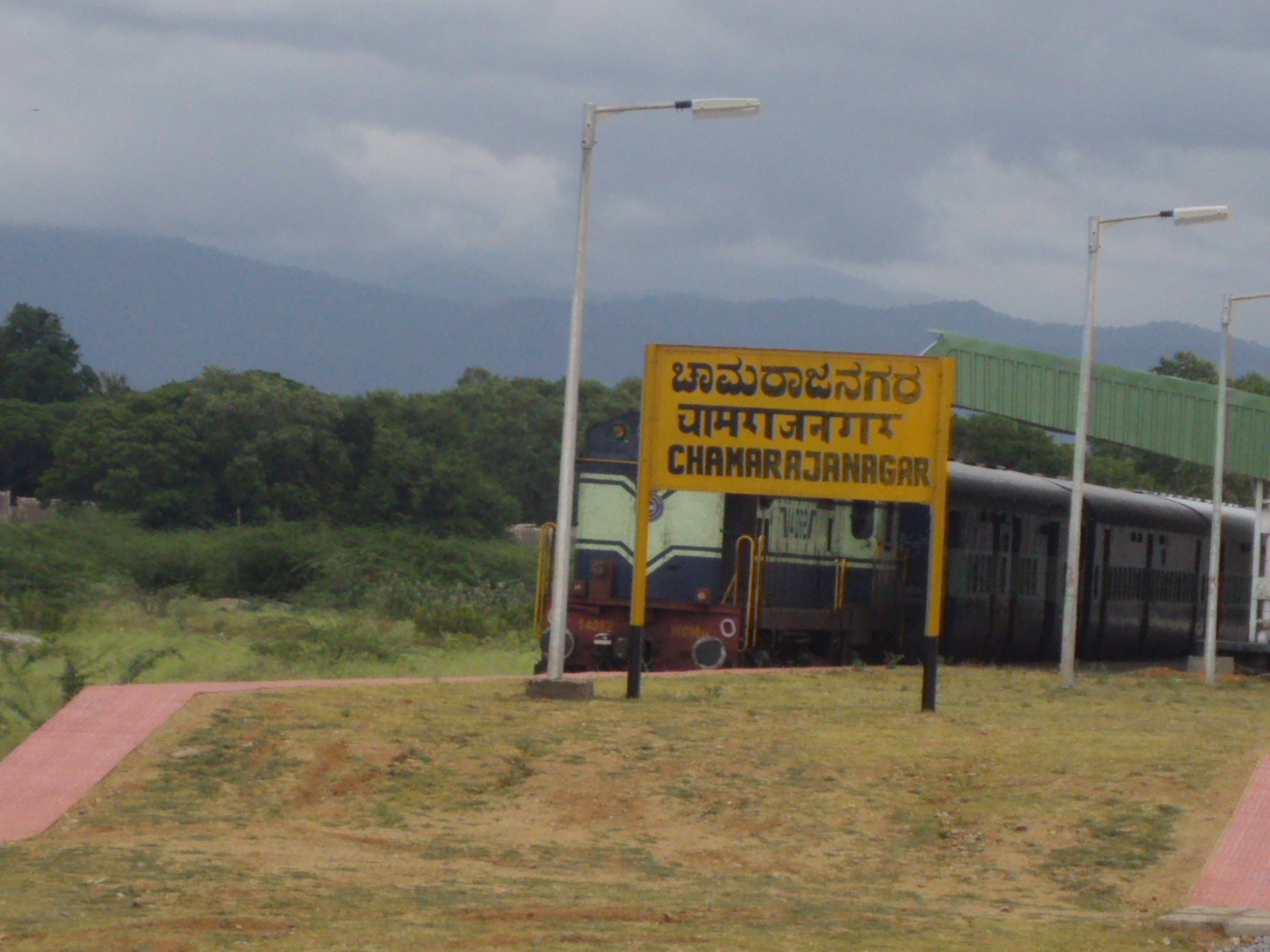 56213 Tirupati Fast Passenger train at Chamarajanagar Railway Station in a beautiful Background